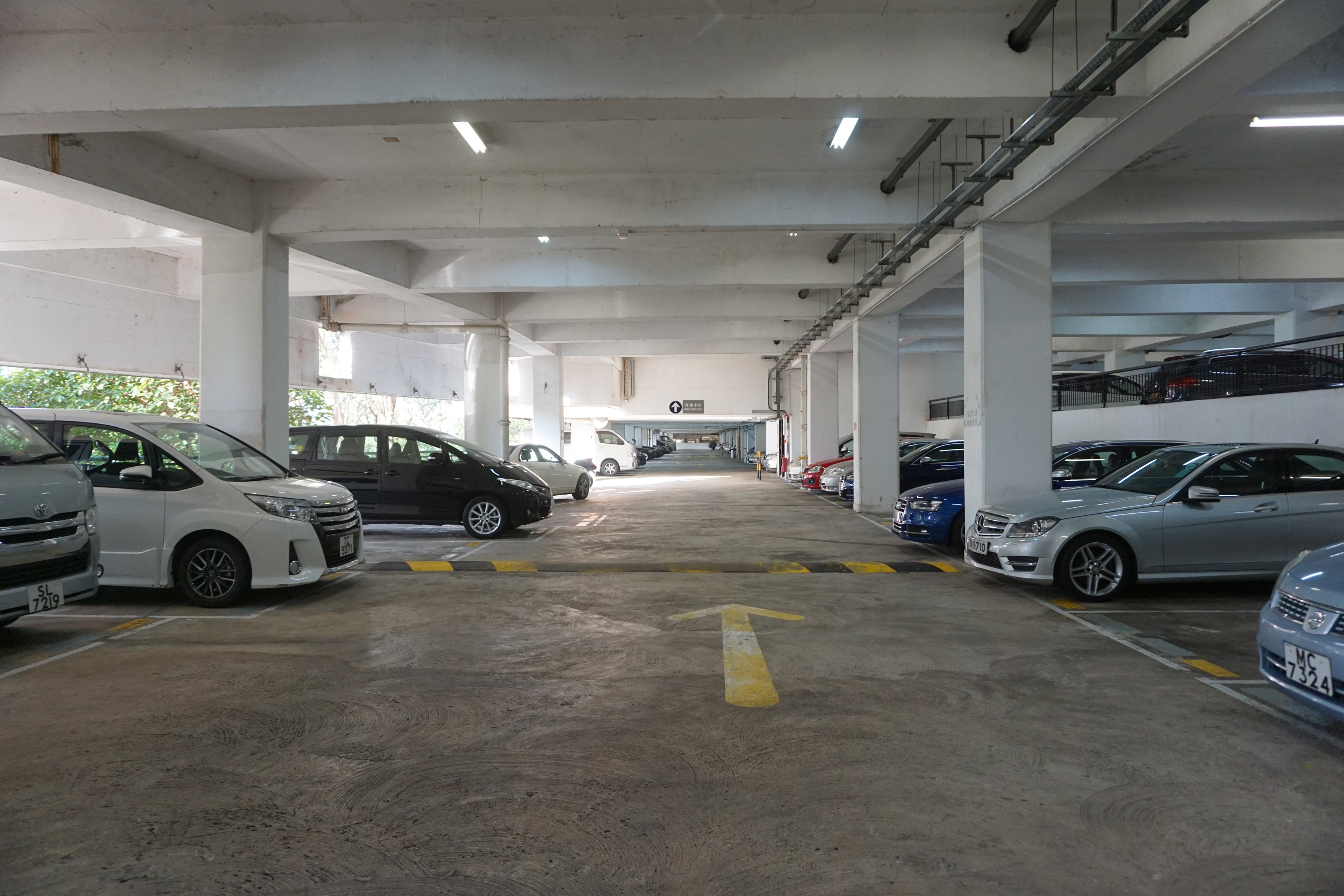 Kam Ying Court in Ma On Shan, Hong Kong.